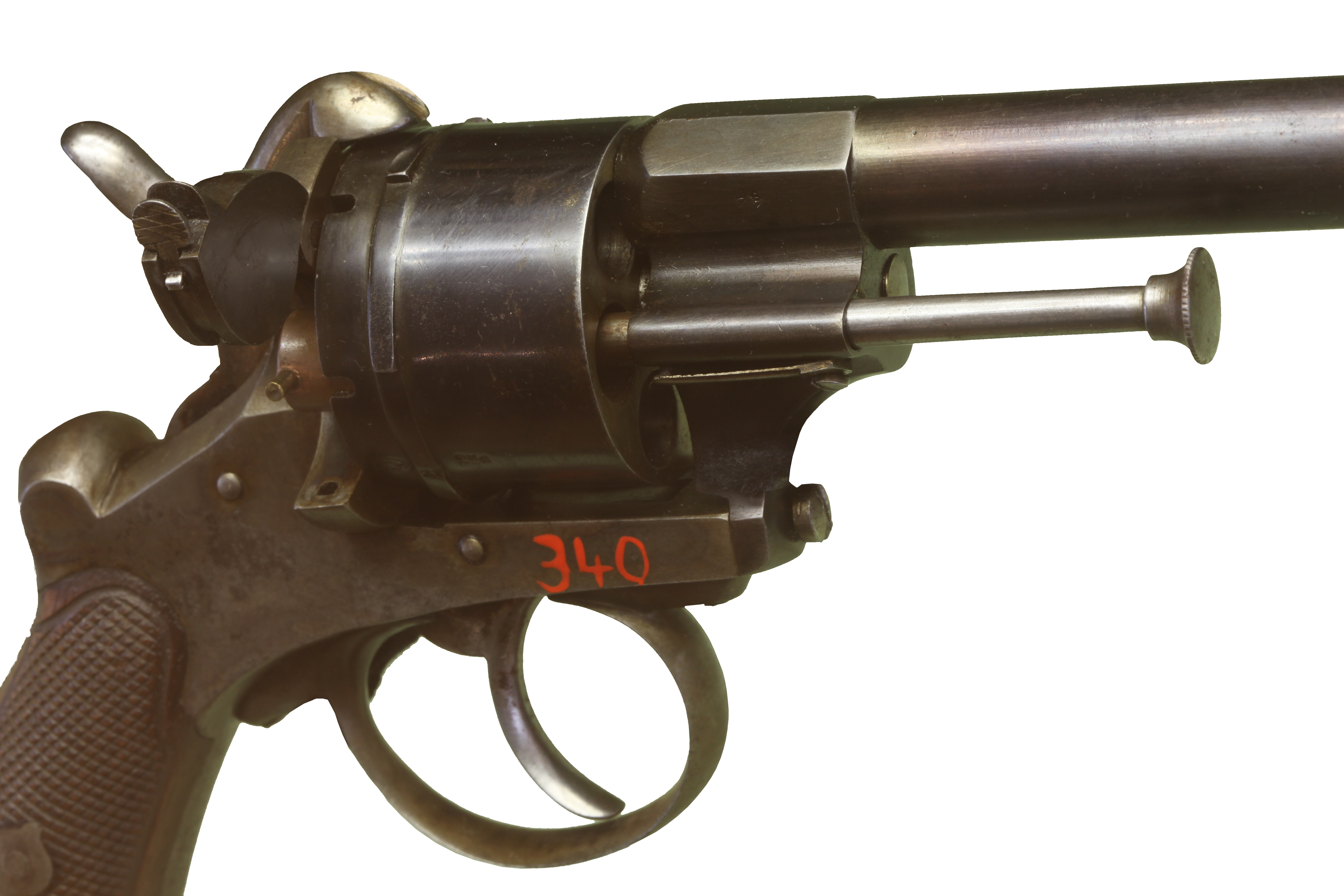 Lefaucheux M1858 revolver, double action, Lefaucheux system. Liège, Belgium, circa 1860-1865. On display at Morges military museum, accession number MMV 1004660